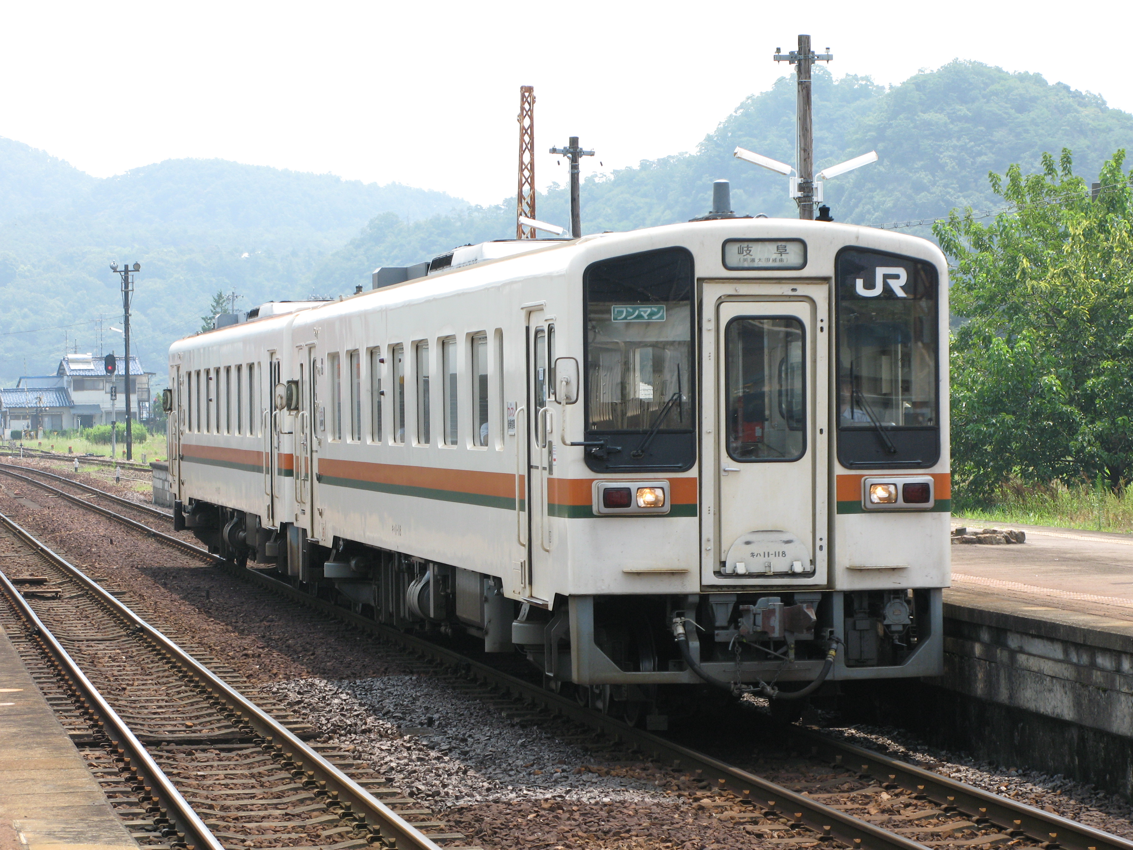 JR Central KiHa 11-118 diesel car leads a two car formation (location unknown)